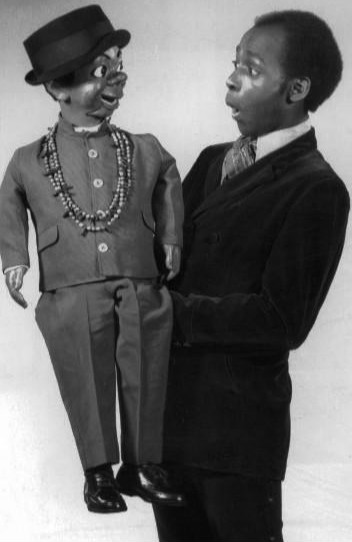 Publicity photo of Willie Tyler with Lester.